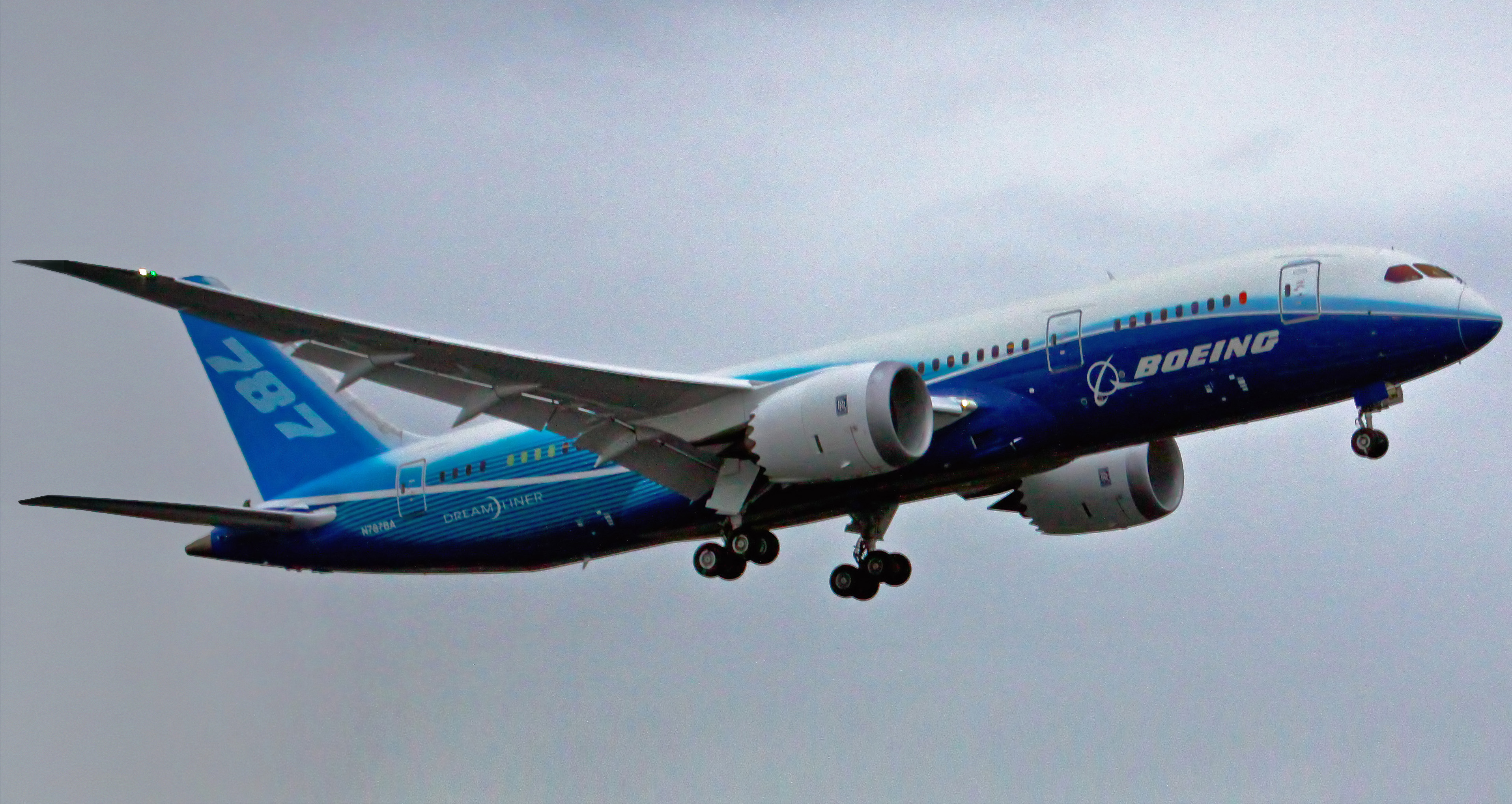 First flight of Boeing 787 Dreamliner on December 15, 2009 just after takeoff